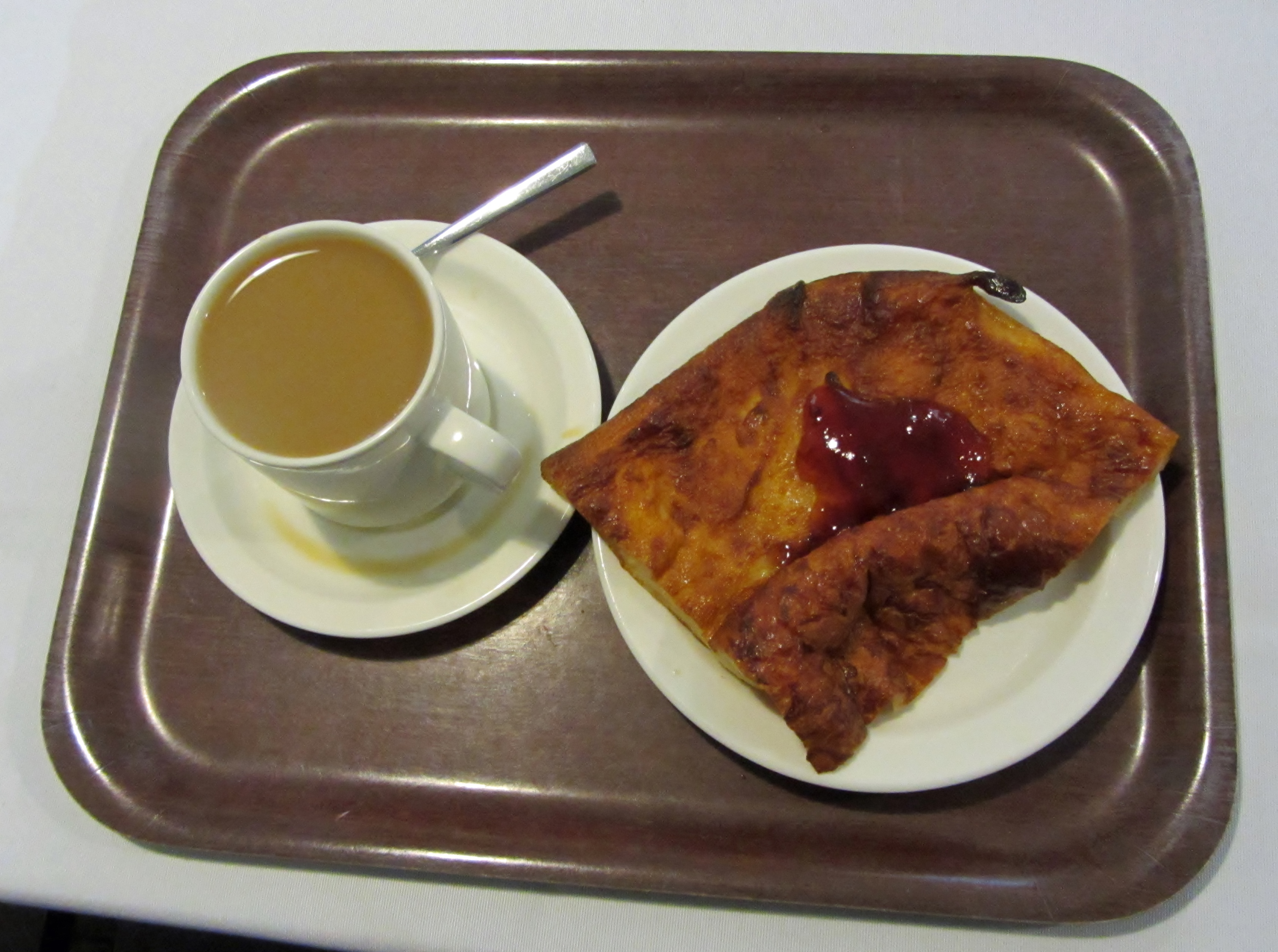 Coffee and pancake - Café Amurin Helmi at Amuri Museum of Workers' Housing